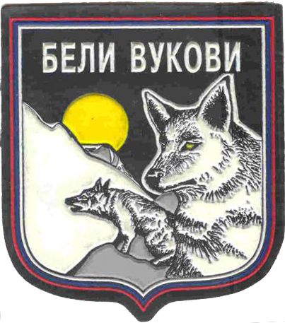 Crest.